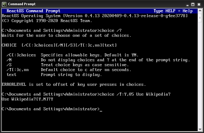 choice command on ReactOS-0.4.13